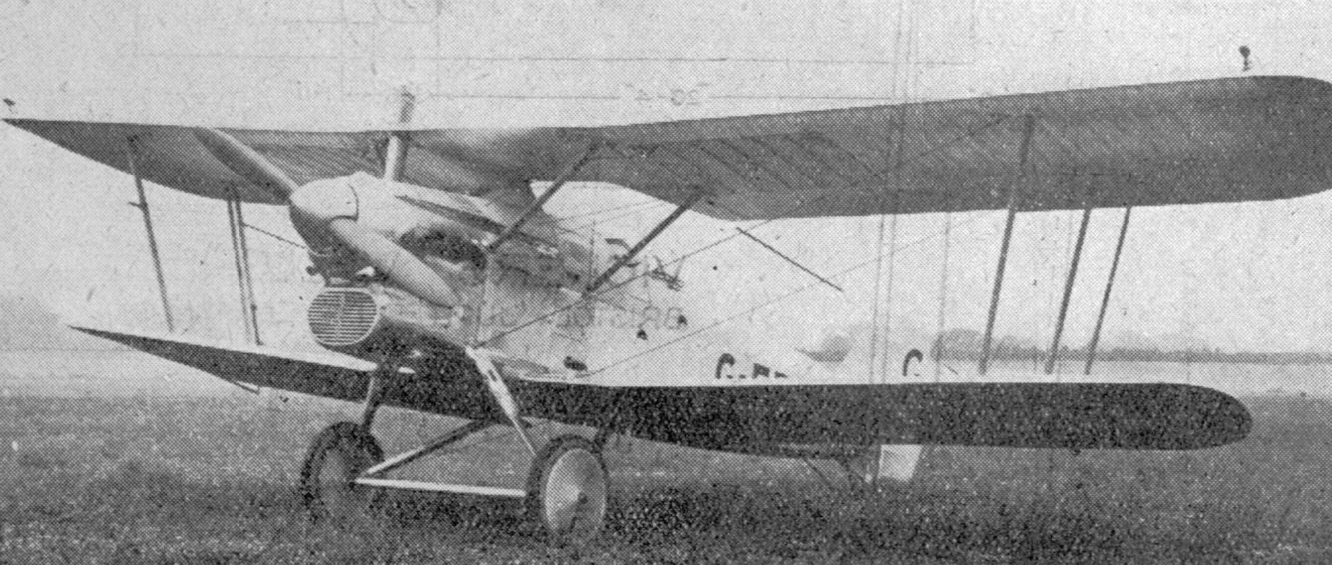 Vickers Vivid photo from Le Document aéronautique February,1929